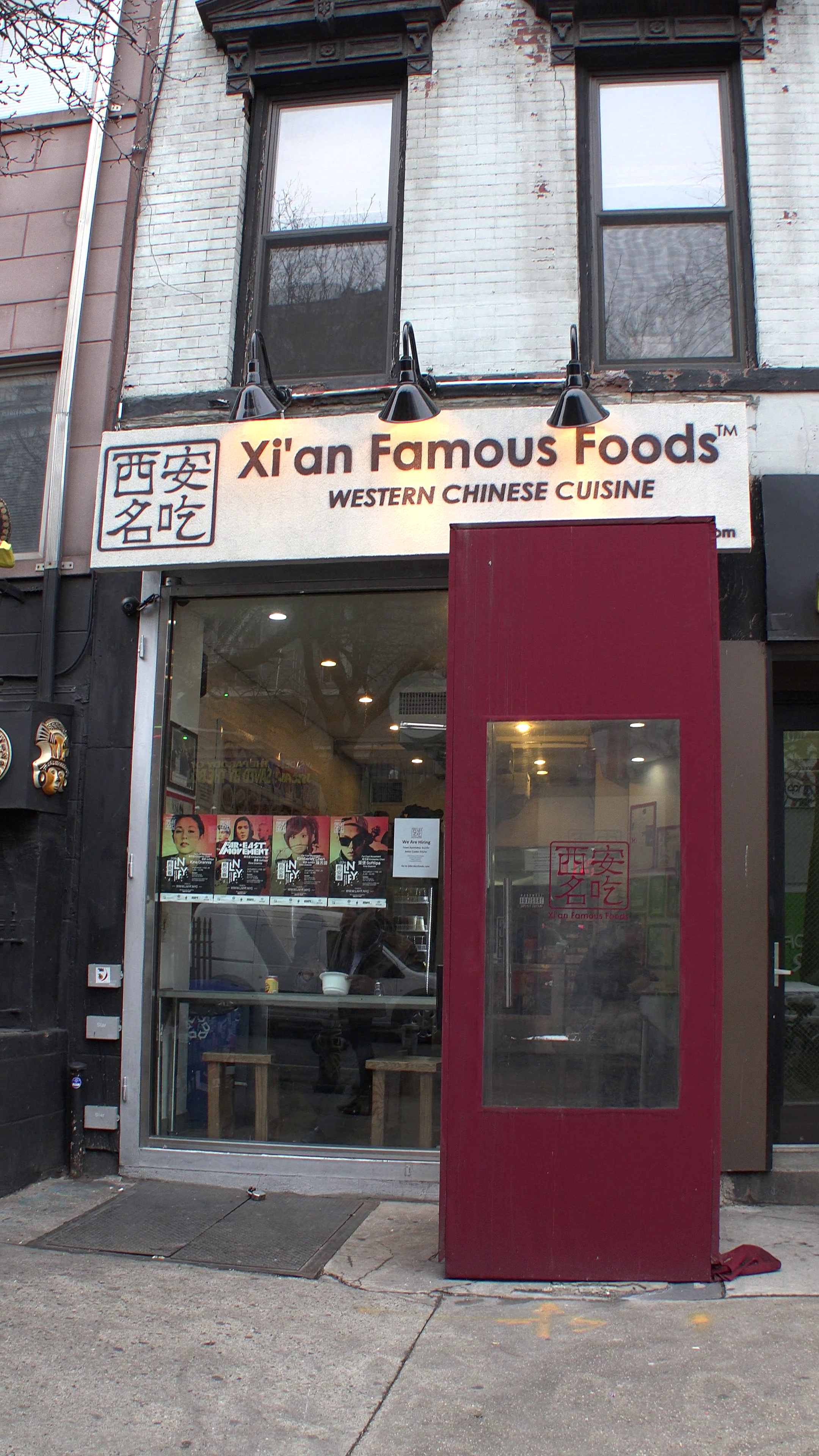 Xian Famous Foods on St Marks Place in New York City